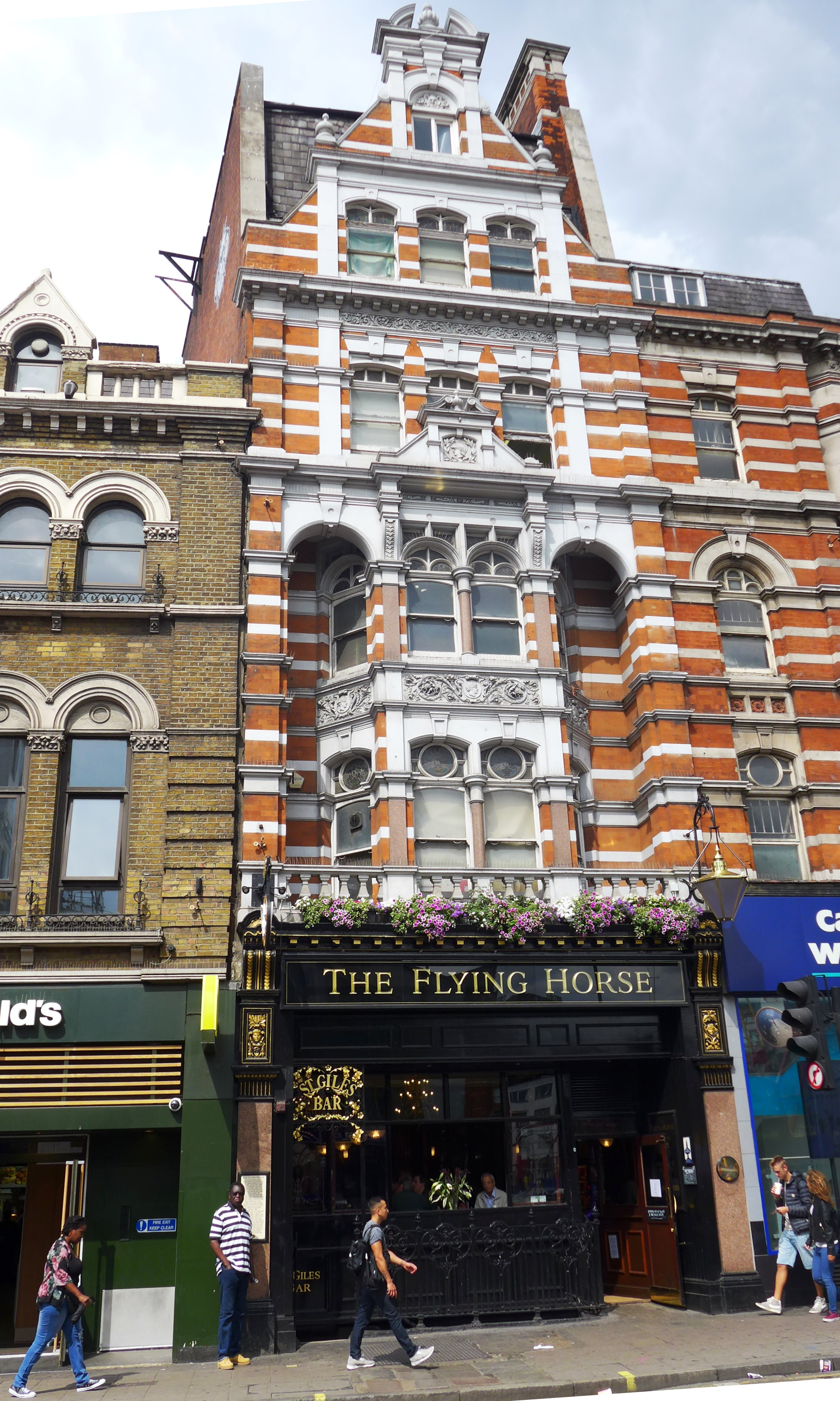 A busy pub opposite Tottenham Court Road station. (Photo of it as The Tottenham.) Address: 6 Oxford Street. Former Name(s): The Tottenham. Owner: Mitchells and Butlers [Nicholson's] (website). Links: London Pubology